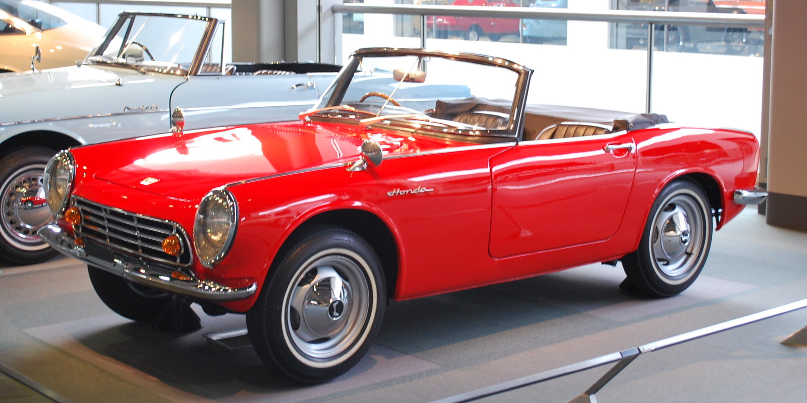 Honda_S500 Model AS280